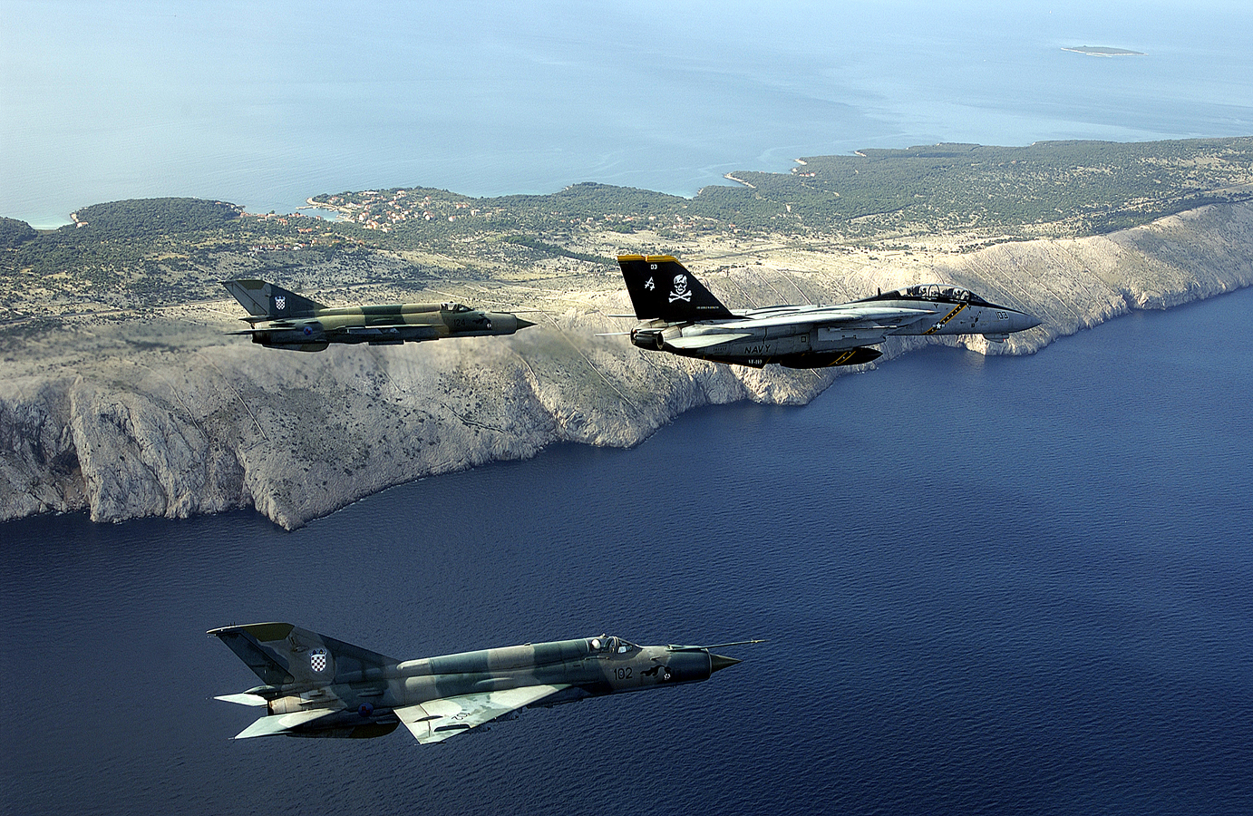 An F-14B "Tomcat" assigned to the "Jolly Rogers" of Fighter Squadron One Zero Three (VF-103) flies in formation with a pair of MiG-21’s assigned to the Croat Air Force. VF-103 is part of a detachment from Carrier Air Wing Seventeen (CVW-17) embarked aboard USS George Washington (CVN 73) participating with the Croat Air Force in Joint Wings 2002. Joint Wings is a multinational exercise between the U.S. and the Croat Air Force designed to practice intelligence gathering. George Washington is homeported in Norfolk, Va., and is nearing the end of a scheduled six month deployment after completing combat missions in support of Operations Enduring Freedom and Southern Watch.